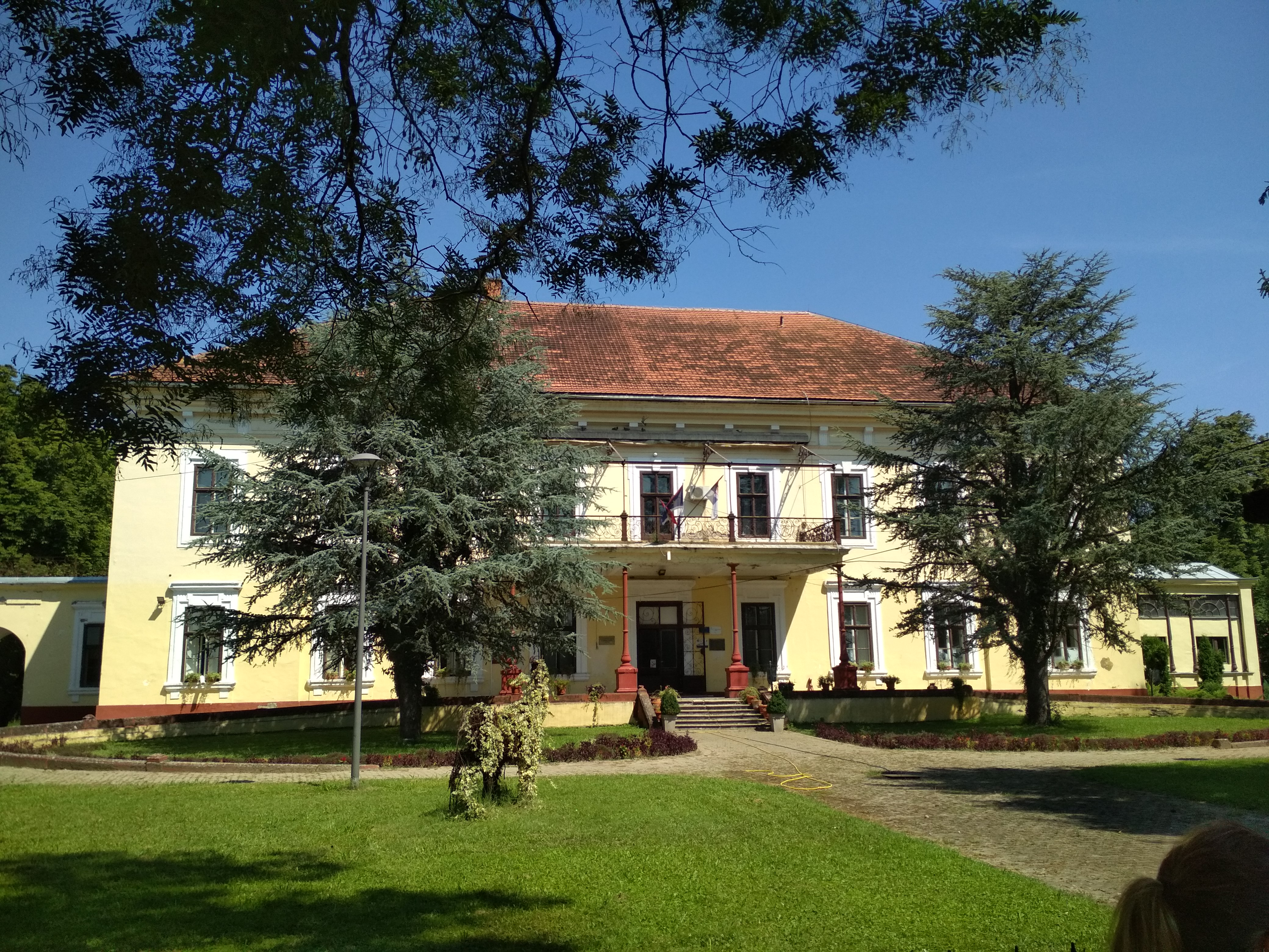 Дворац Хадик